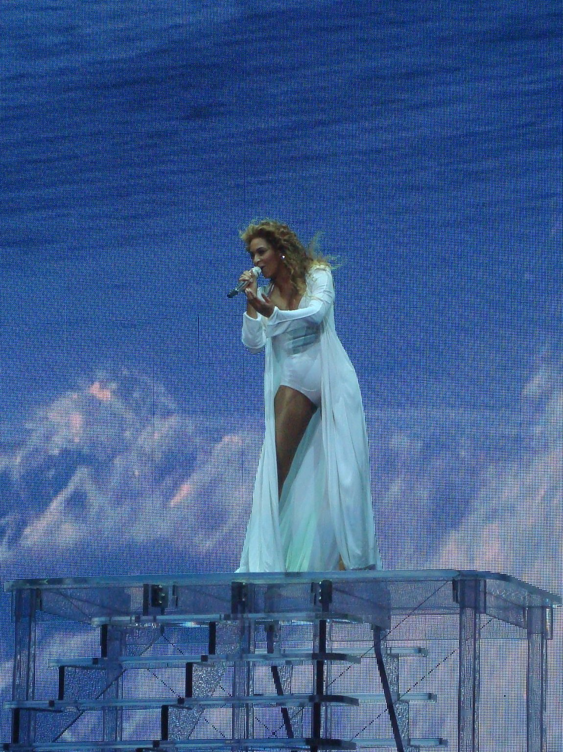 Beyoncé performing Smash Into You, in Rio de Janeiro.